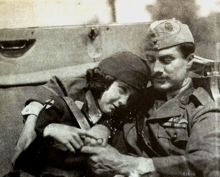 Still from the American comedy film Flying Pat (1920) with Dorothy Gish and James Rennie, on page 37 of the March 1922 Photoplay.